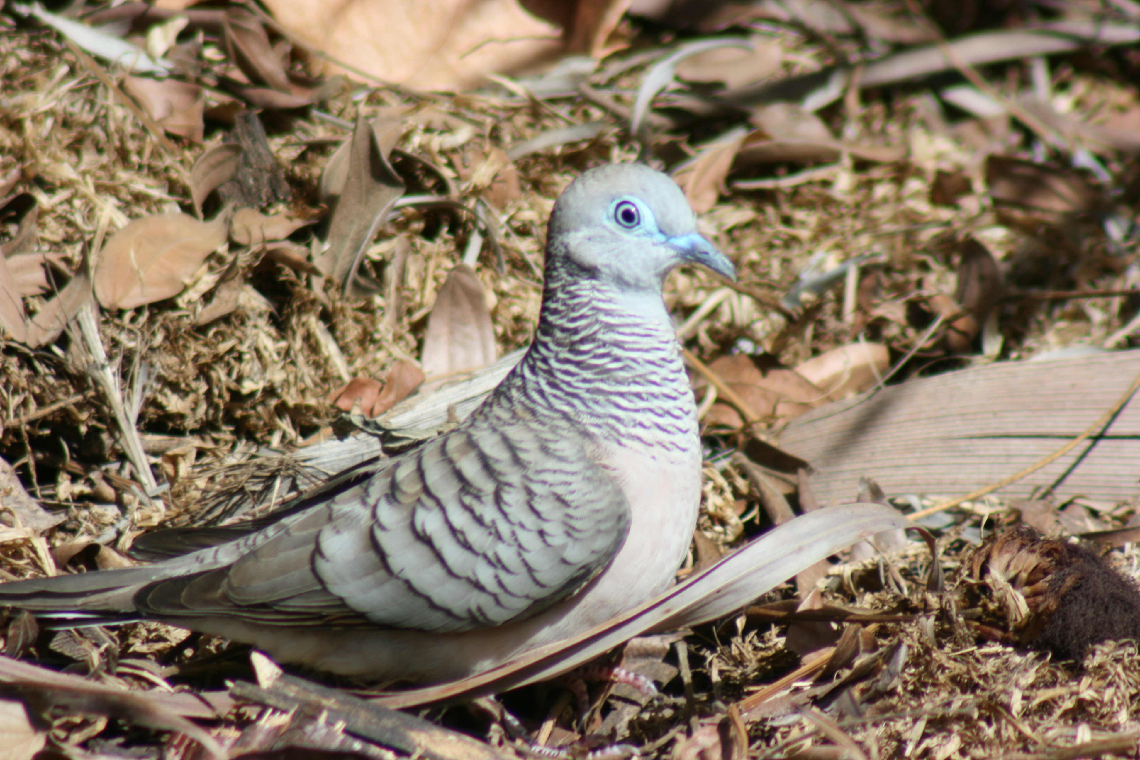 Peaceful Dove in Cairns, Australia.